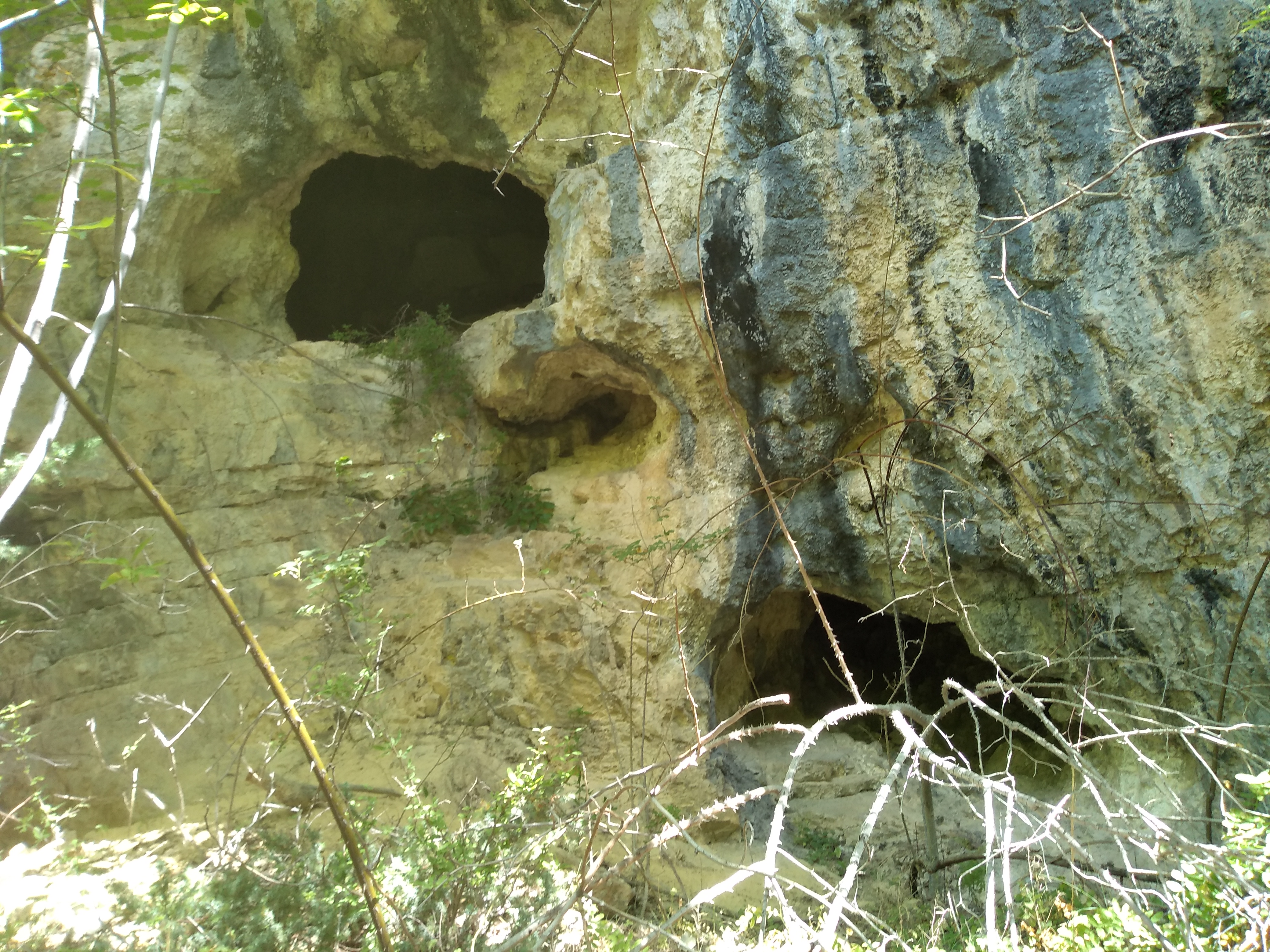 Mirchevica cave on Kozuf mountain, Macedonia